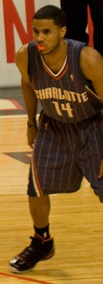 D.J. Augustin waiting during a free throw